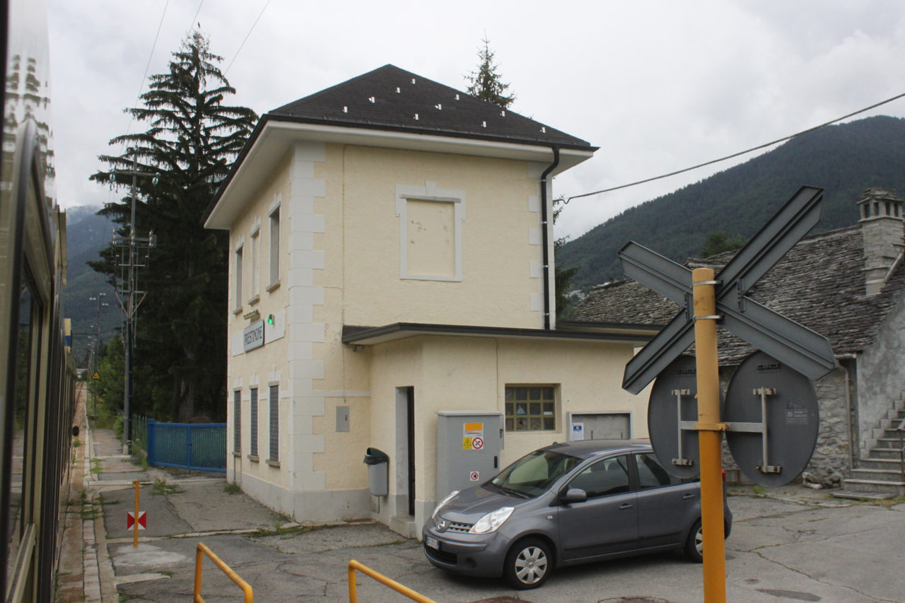 Prestinone train station.